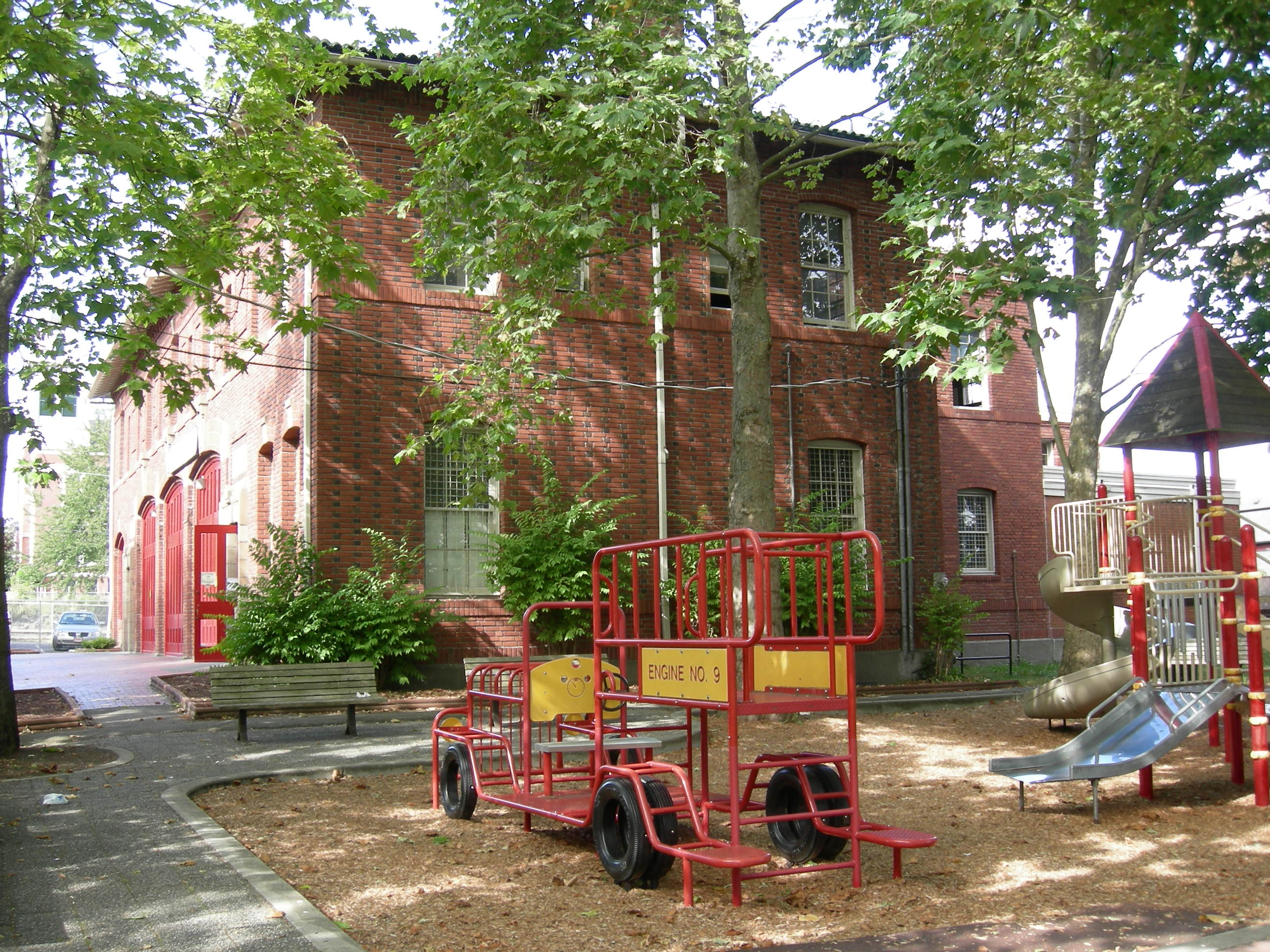 Playground in Firehouse Mini Park and, in background, the "CAMP Firehouse": the former Firehouse No. 23, Seattle, Washington, headquarters of Seattle's Byrd Barr Place (formerly Central Area Motivation Program), which is on the National Register of Historic Places.